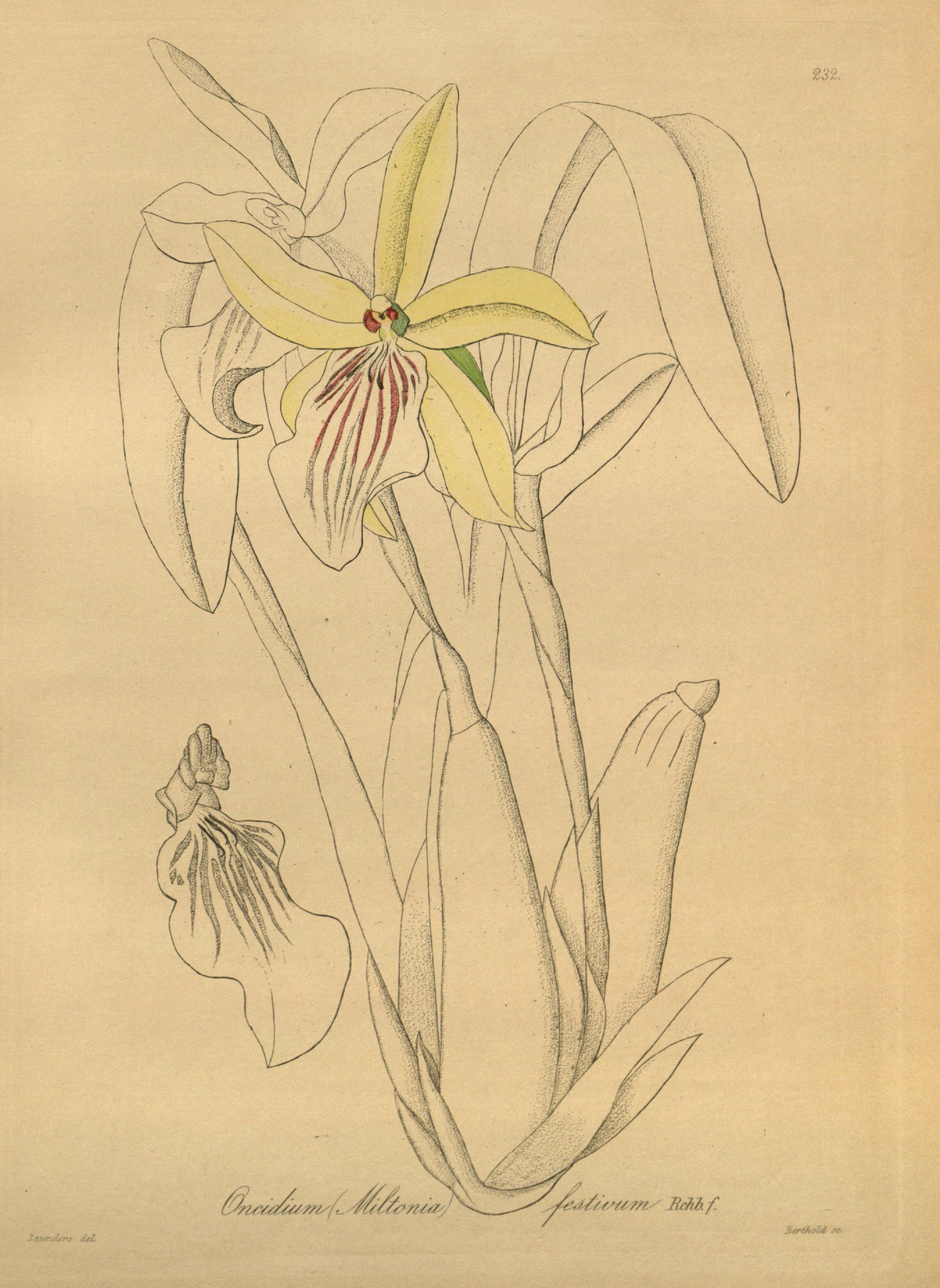 Illustration of Miltonia × cyrtochiloides (as syn. Oncidium (Miltonia) festivum) (Miltonia flavescens × Miltonia spectabilis)